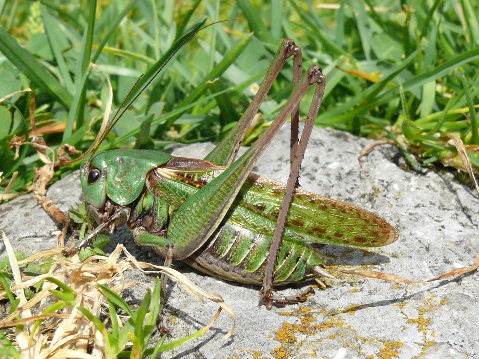 Wart-biter Bush Cricket, picture taken in the bavarian Alps, Germany